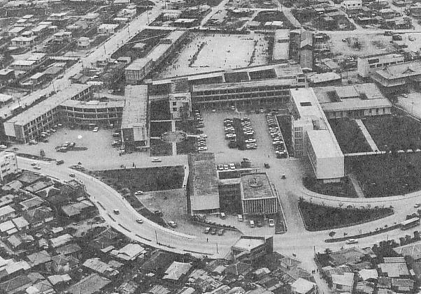 Bird's-eye view of GRI(Government of the Ryukyu Island)